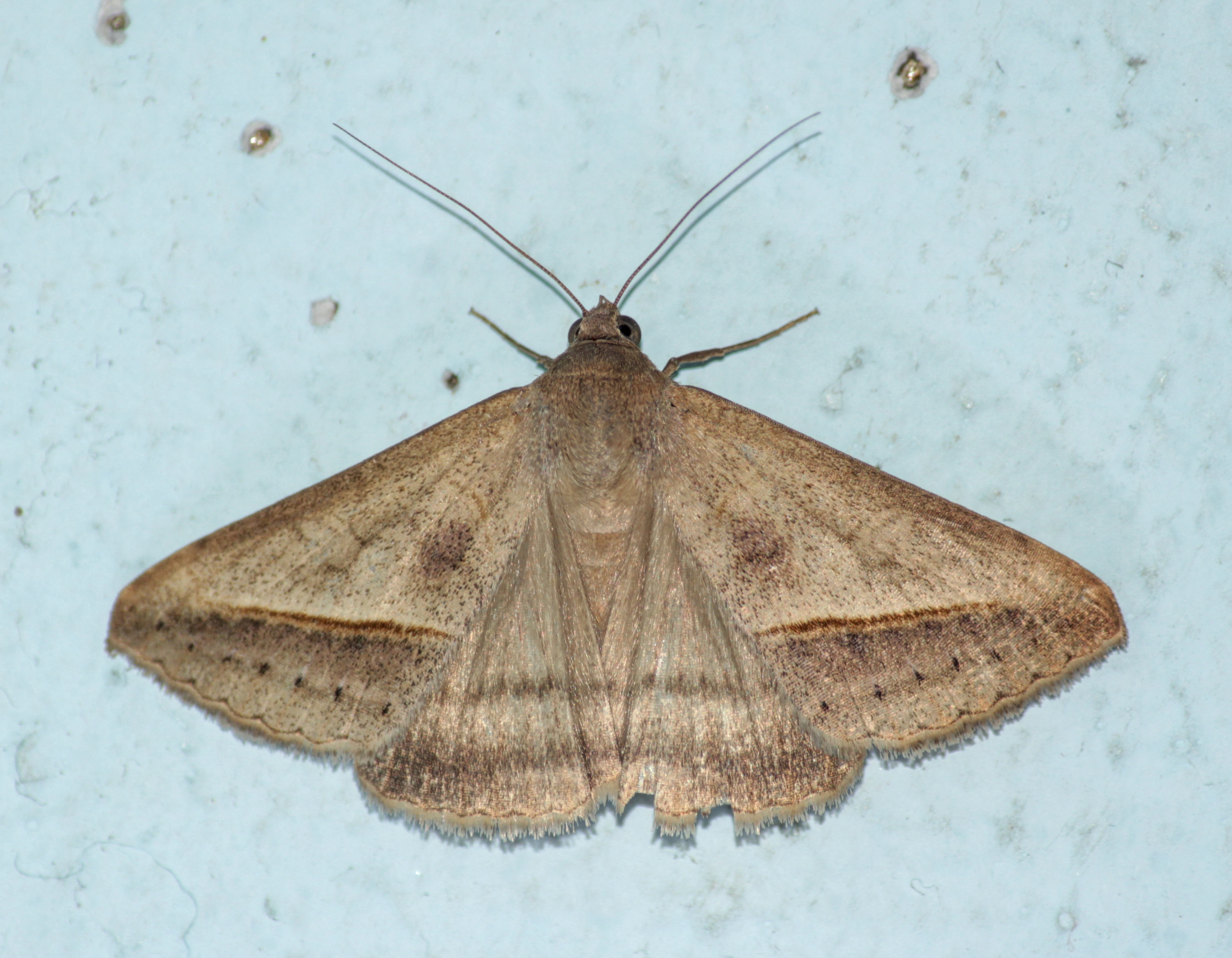 A Sugarcane looper (Mocis frugalis) moth. Photographed near Kanjirappally, Kerala.